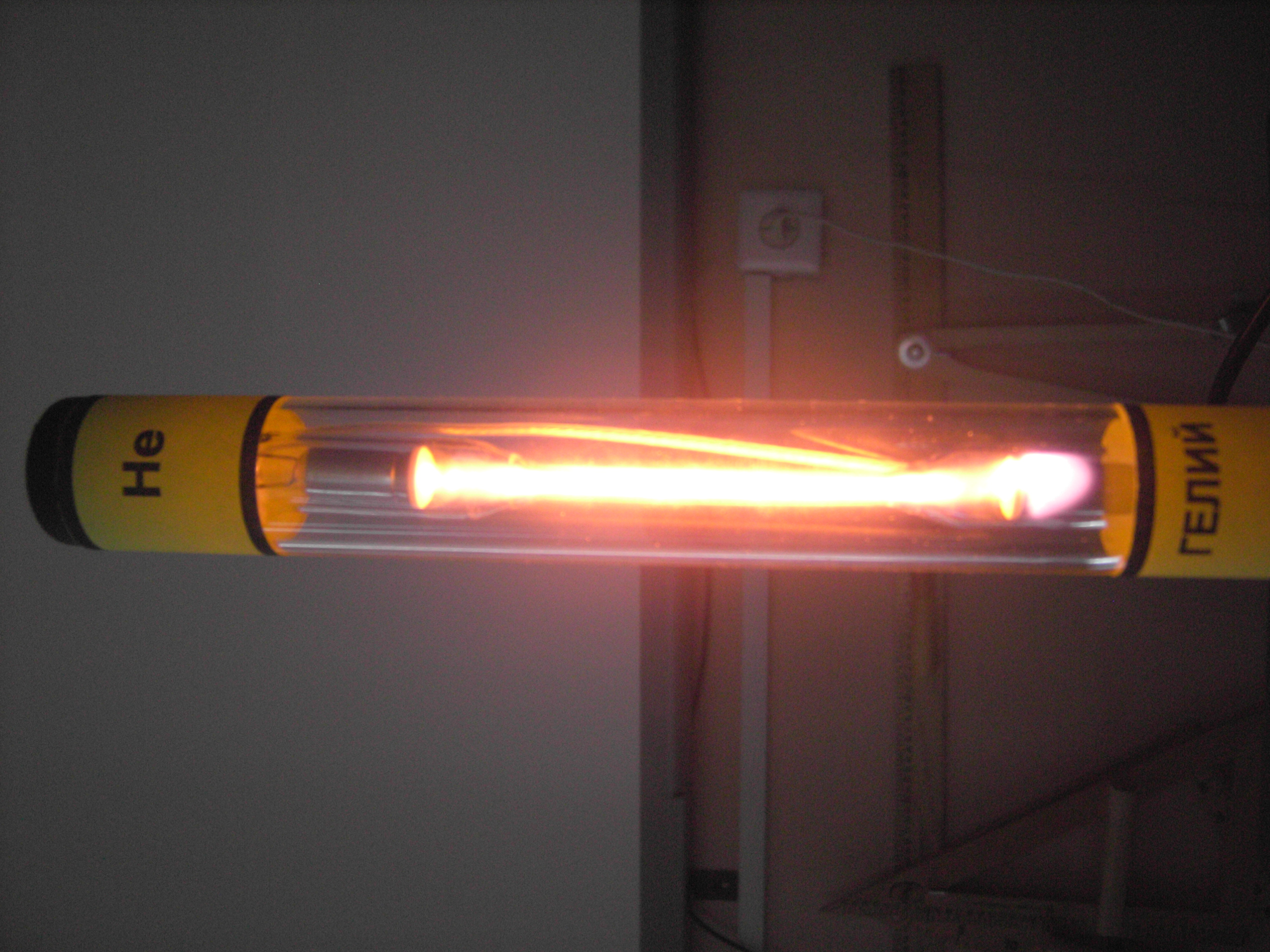 While passing through the inert gas helium of electricity, it begins to glow.